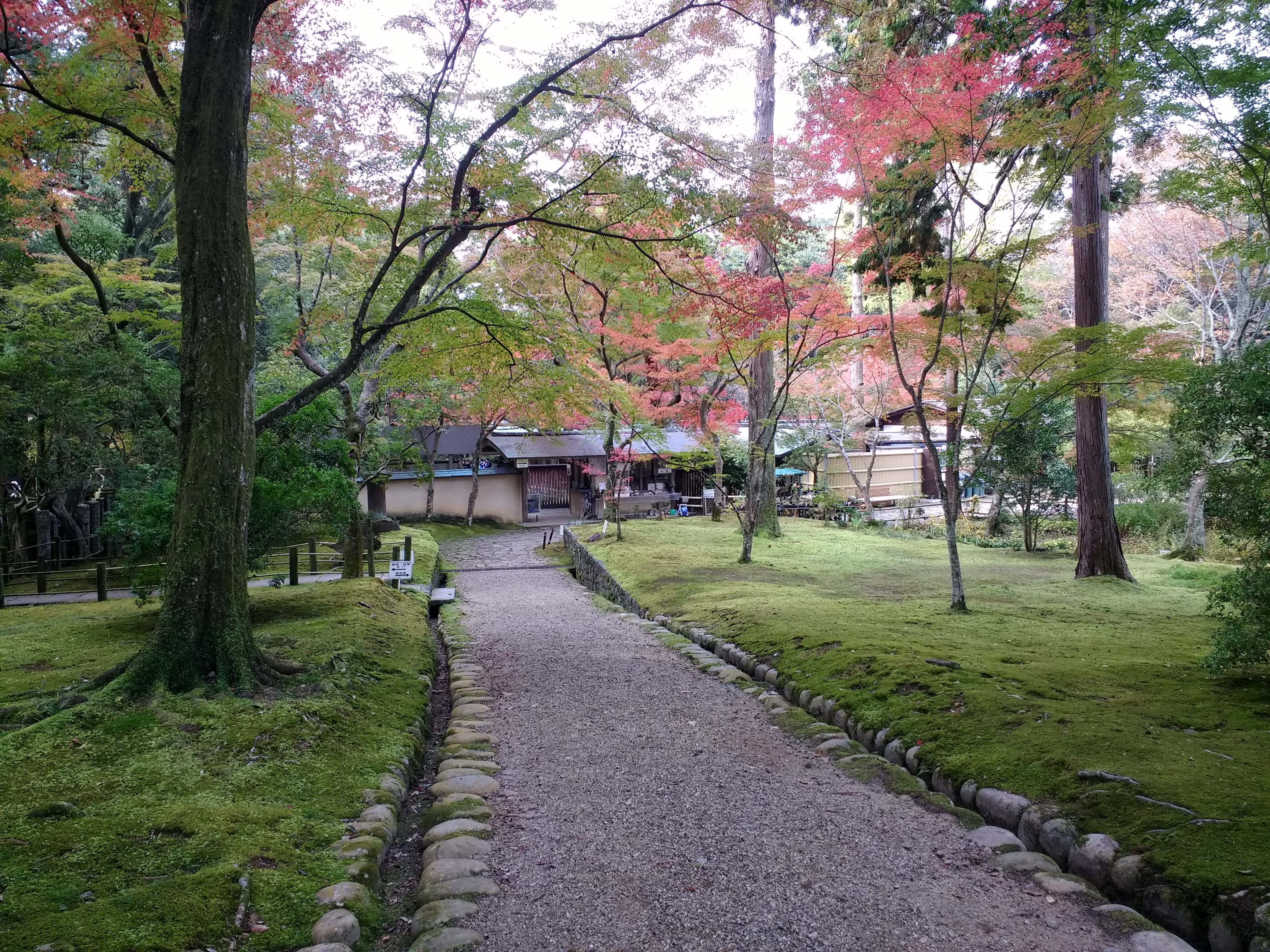 Manyo Botanical Garden (萬葉植物園) in Nara, Japan.